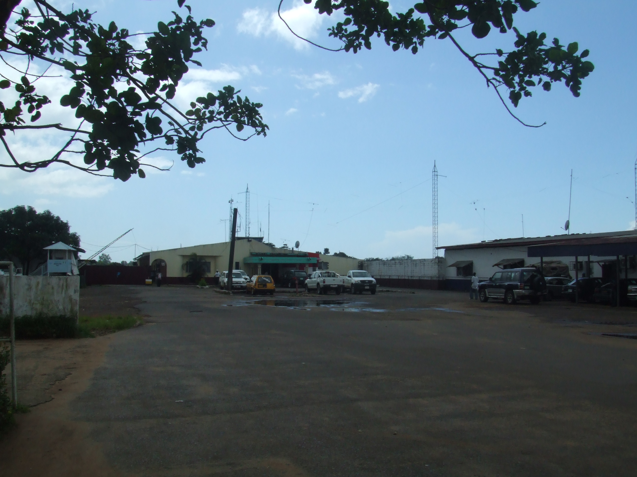 The Exterior of the main terminal at Spriggs Payne Airport in Monrovia, Liberia, taken from the parking area. The main entrance is at the center of the photograph under the green porte-cochere. The Elysian Airlines office is at the far right.